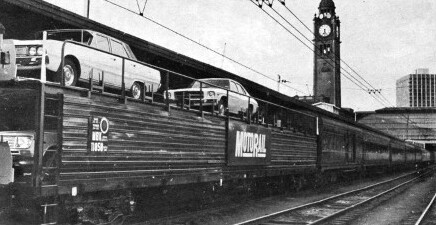 Motorail vehicle on the front of the Gold Coast Motorail train